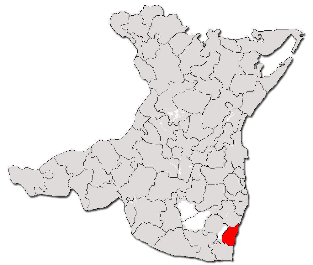 Contour map of Mangalia city